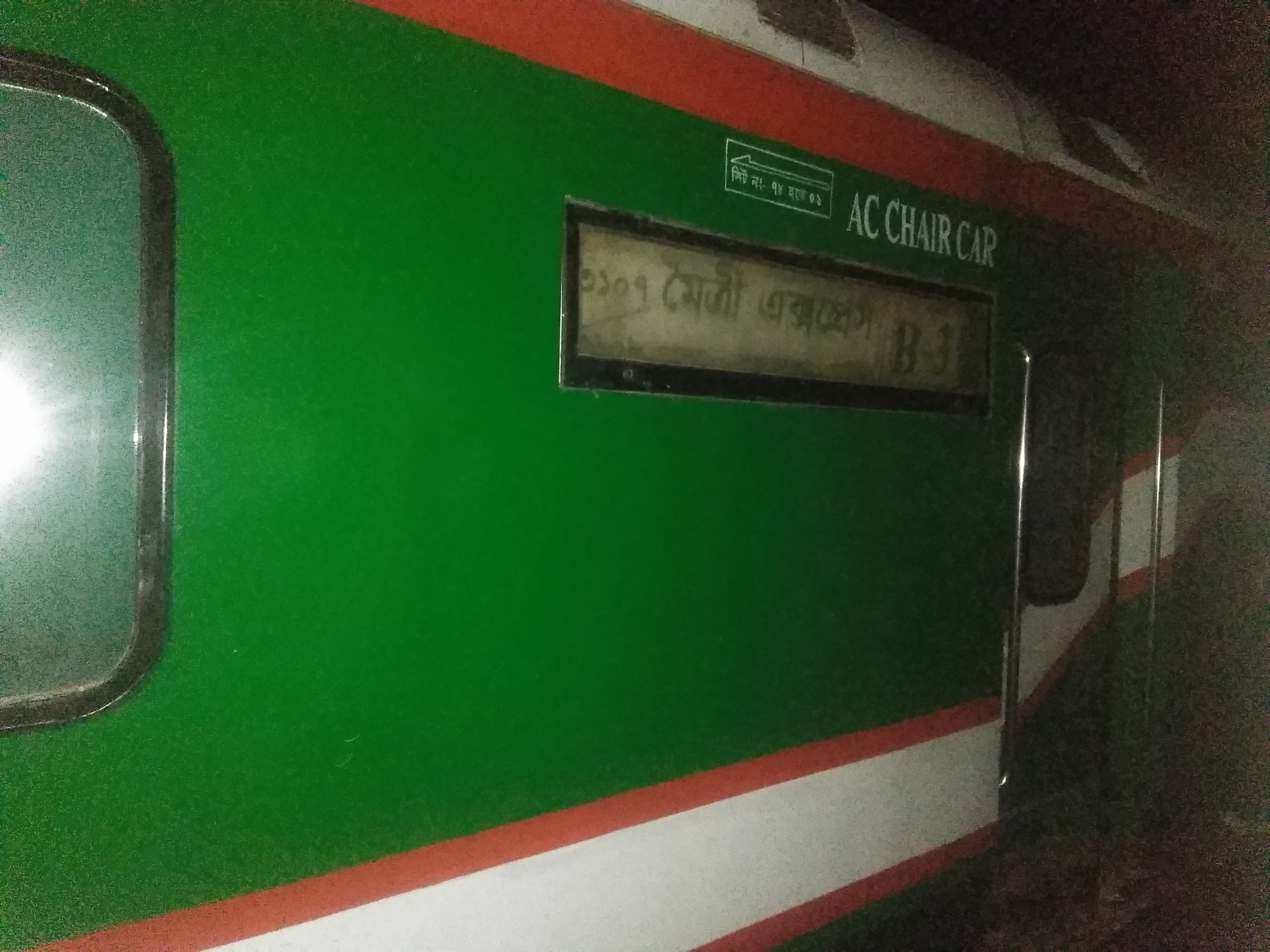 The international train between Bangladesh and India